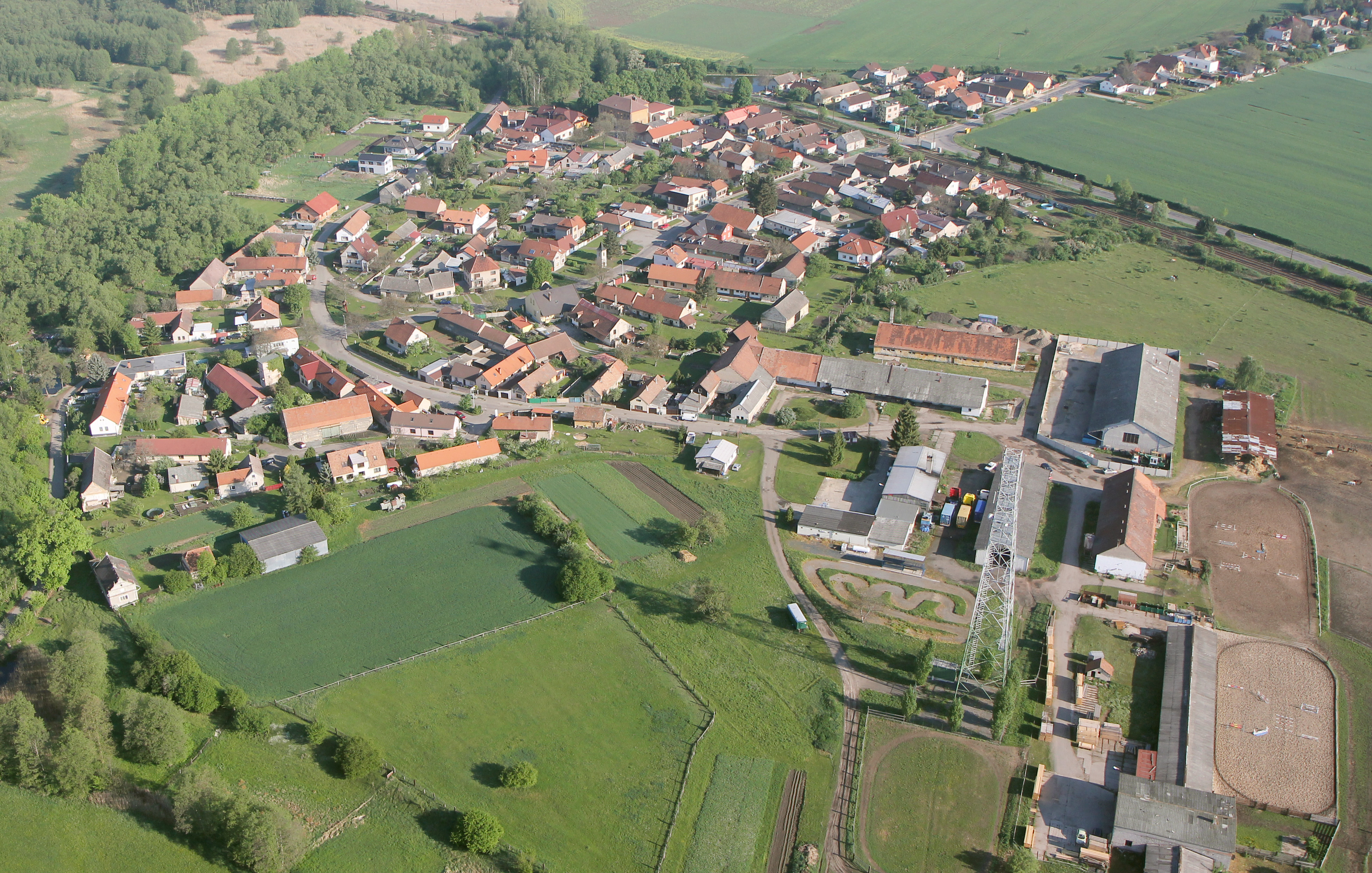 aerial photo